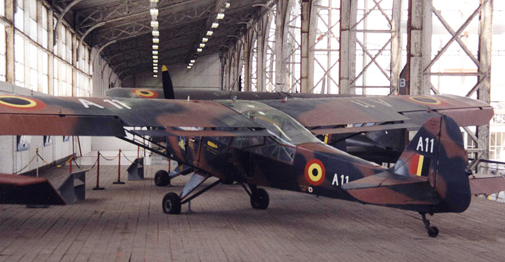 Auster AOP.6 A.11 Belgian Air Force exhibited in the Brussels War Museum